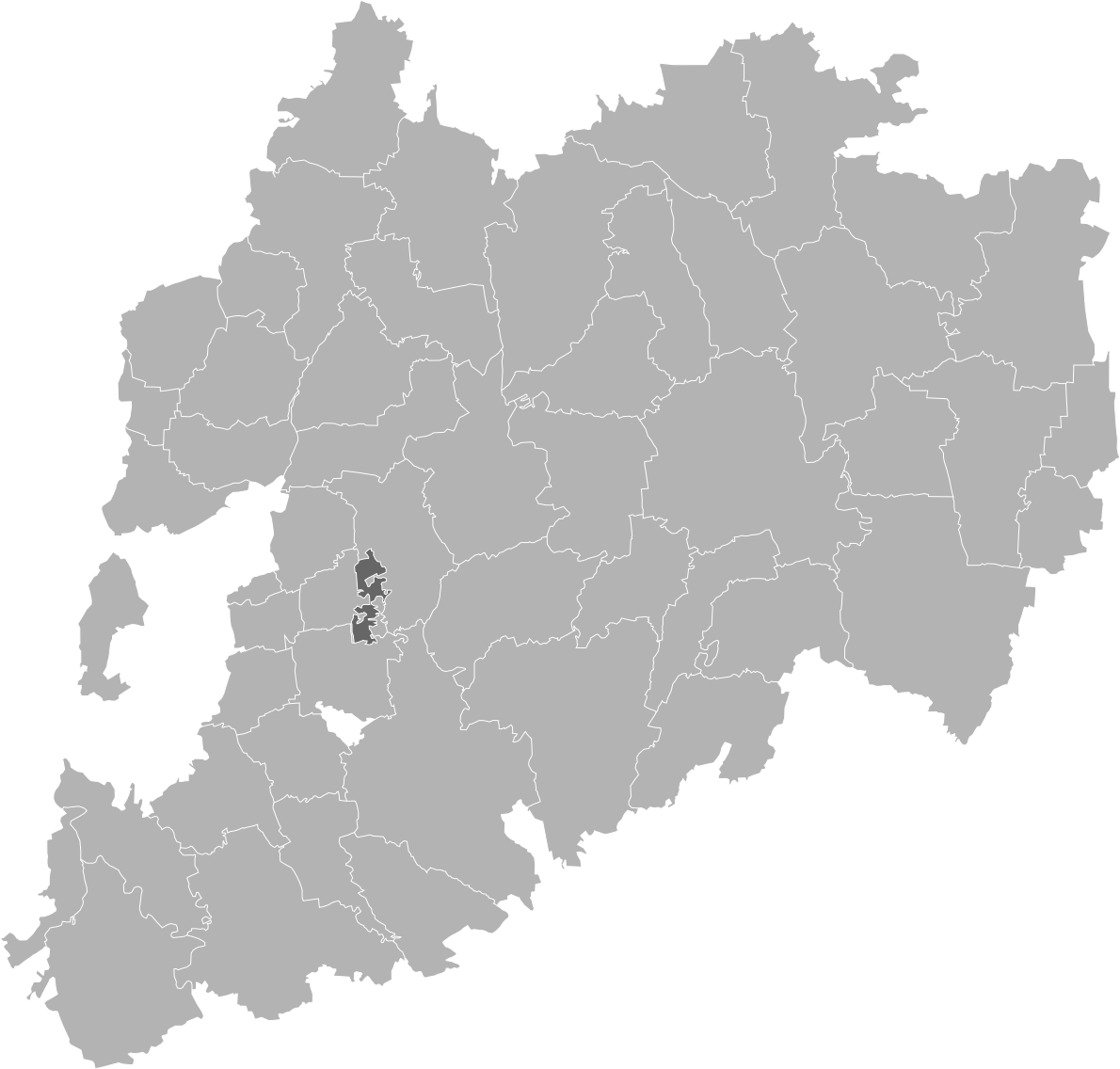 District Unterallgäu - map